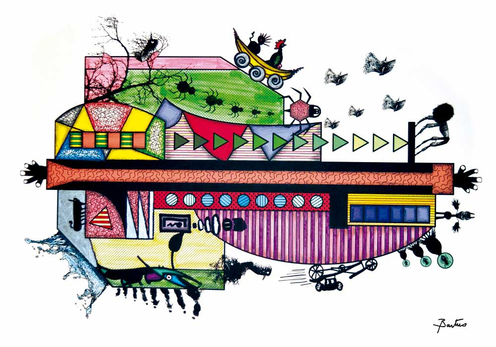 Art from Bartus Bartolomes Mix Media, Ink & Acrilic. Dimension: 1 m x 1.40 m.